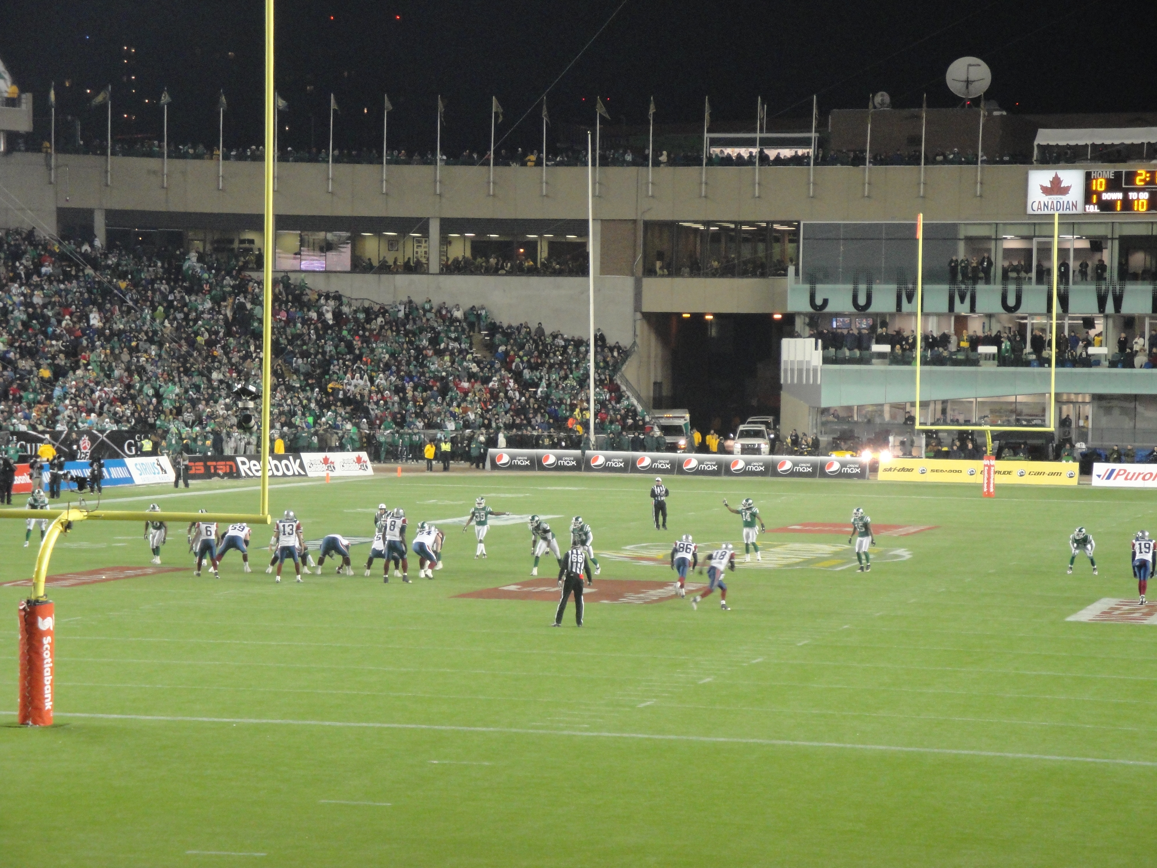 Anthony Calvillo (13) of the Montreal Alouettes directs the offense against the Saskatchewan Roughriders during the 98th Grey Cup game in Edmonton.